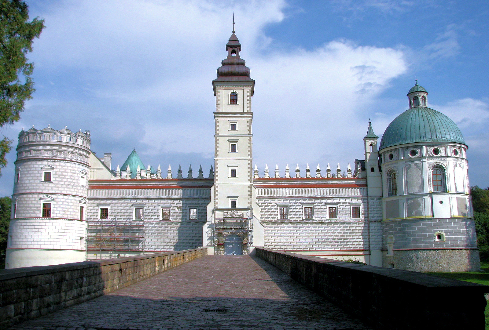 Krasiczyn Castle